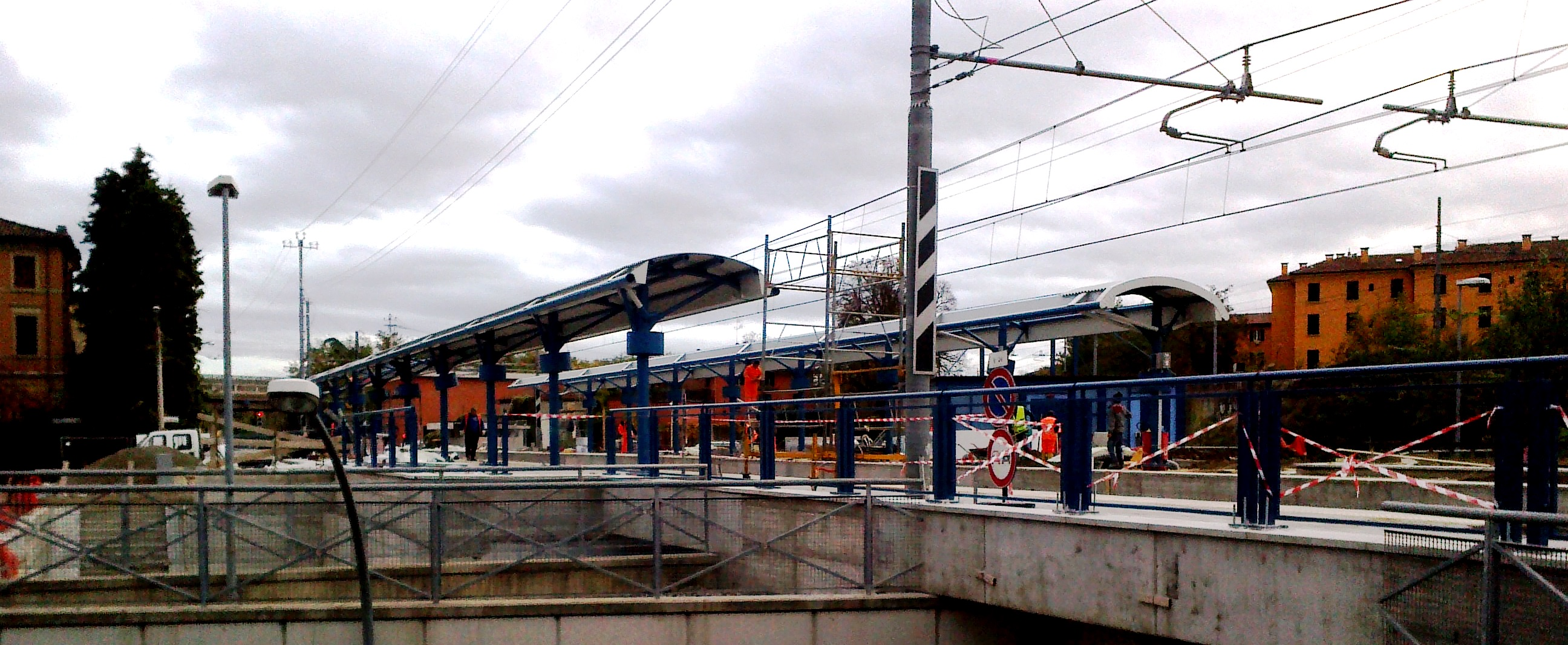 work in progress San Vitale station